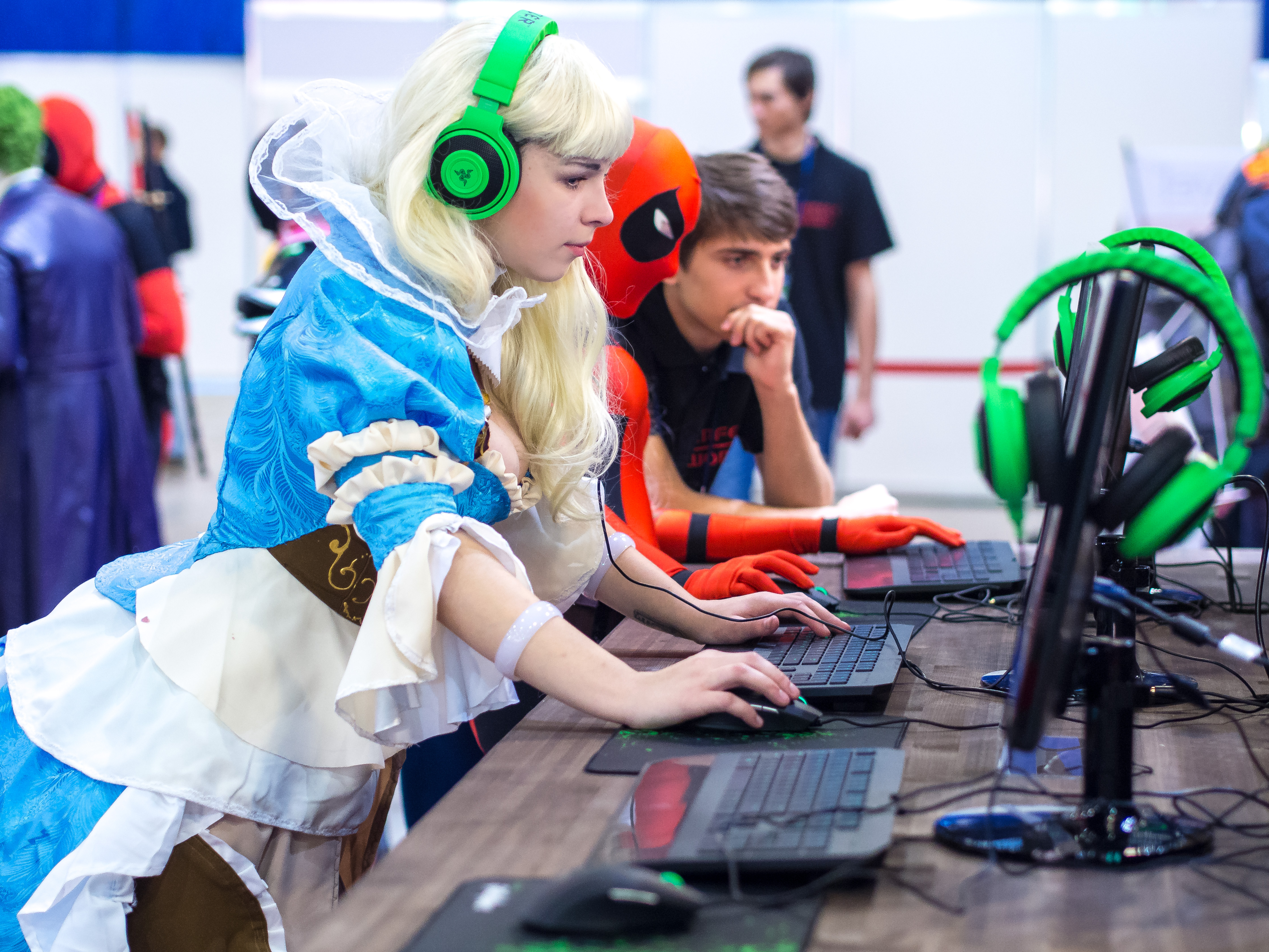 Russian gaming expo